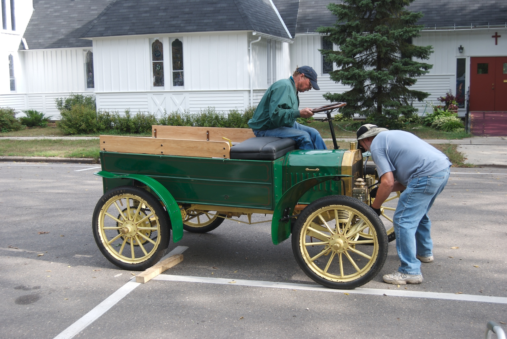 "Handcranking a Classic. As they came around the corner, the motor on this antique died, so a little muscle power was required to get it moving again. " 1908 Brush pickup. Photographed in Lichfield Minnesota. Note piece of wood placed under rear wheel as an "emergency brake".